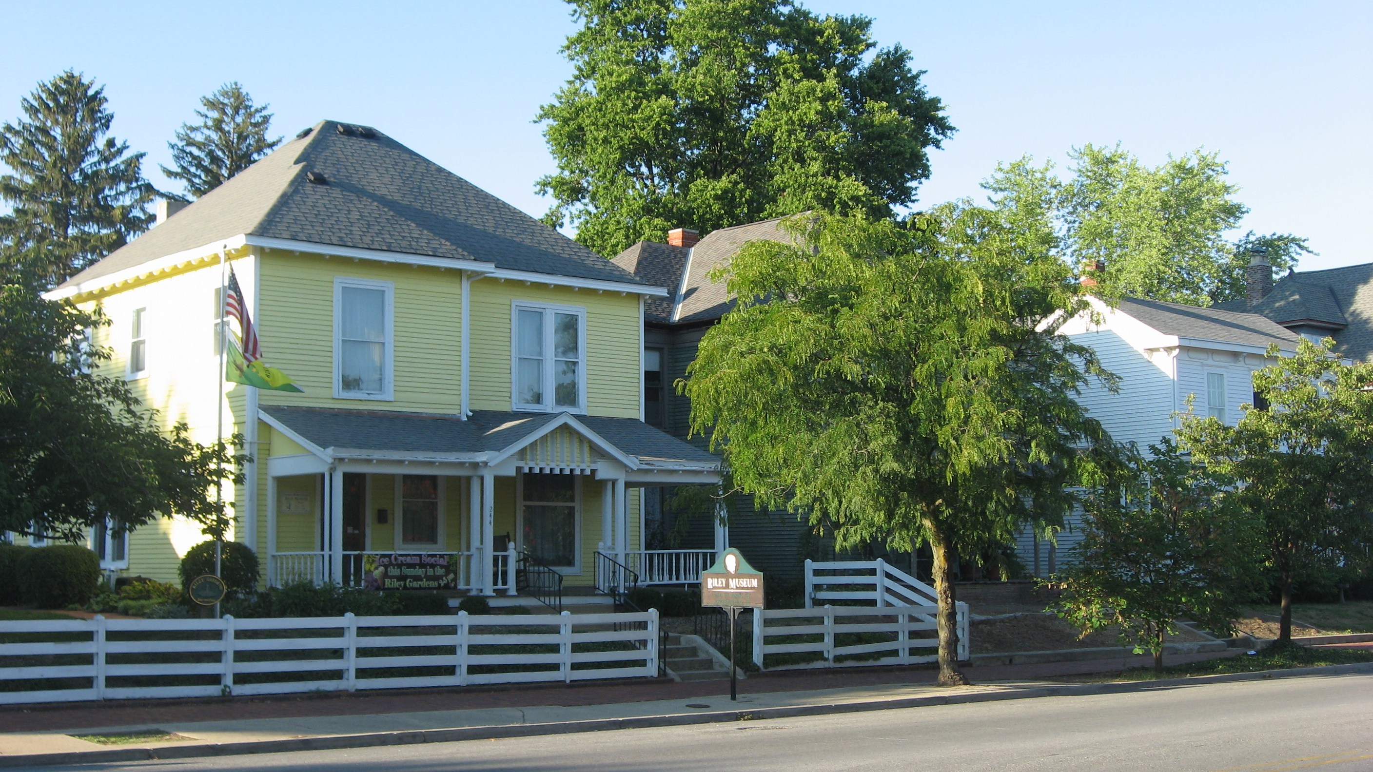 Houses on the northern side of the 200 block of W. Main Street (U.S. Route 40) in Greenfield, Indiana, United States. From left to right: 244 W. Main: Mitchell House, vernacular architecture, built 1890. Now the James Whitcomb Riley Museum, since the next building to the west (just off the left edge of the photo) is Riley's birthplace 238 W. Main: Vernacular architecture, built 1890 234 W. Main: Greek Revival and Italianate architecture, built 1853 This block is part of the Greenfield Residential Historic District, a historic district that is listed on the National Register of Historic Places.